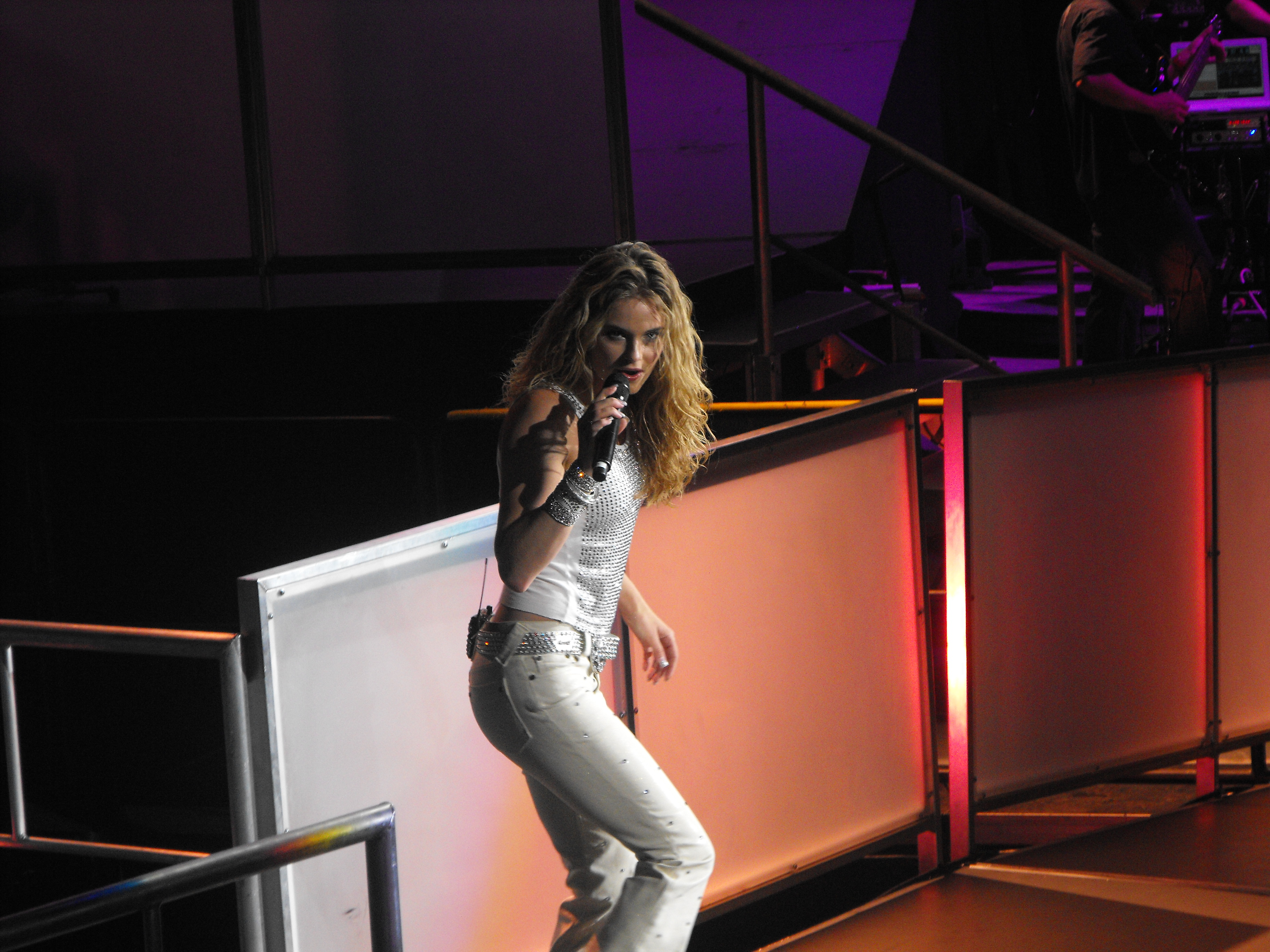 American singer Kristy Lee Cook performing during American Idol's season 7 tour.